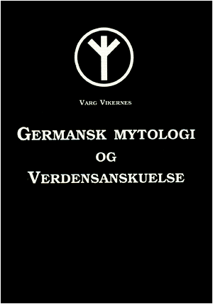 Germansk Mytologi og Verdensanskuelse, a book by Varg Vikernes